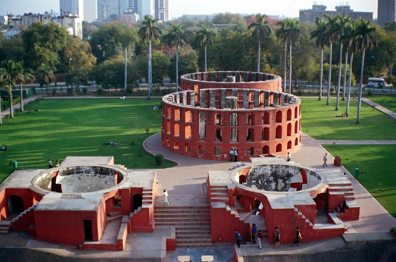 Observatory Jantar Mantar in New Delhi. Uploaded to Flickr on August 31, 2007 by thepooldiariesvisuals Uploaded to wiki by user:nikkul